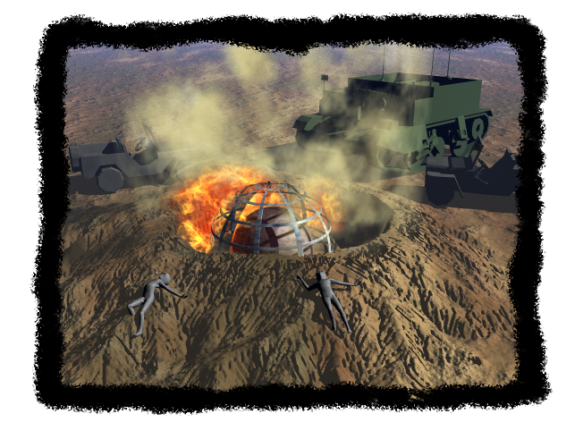 own creation